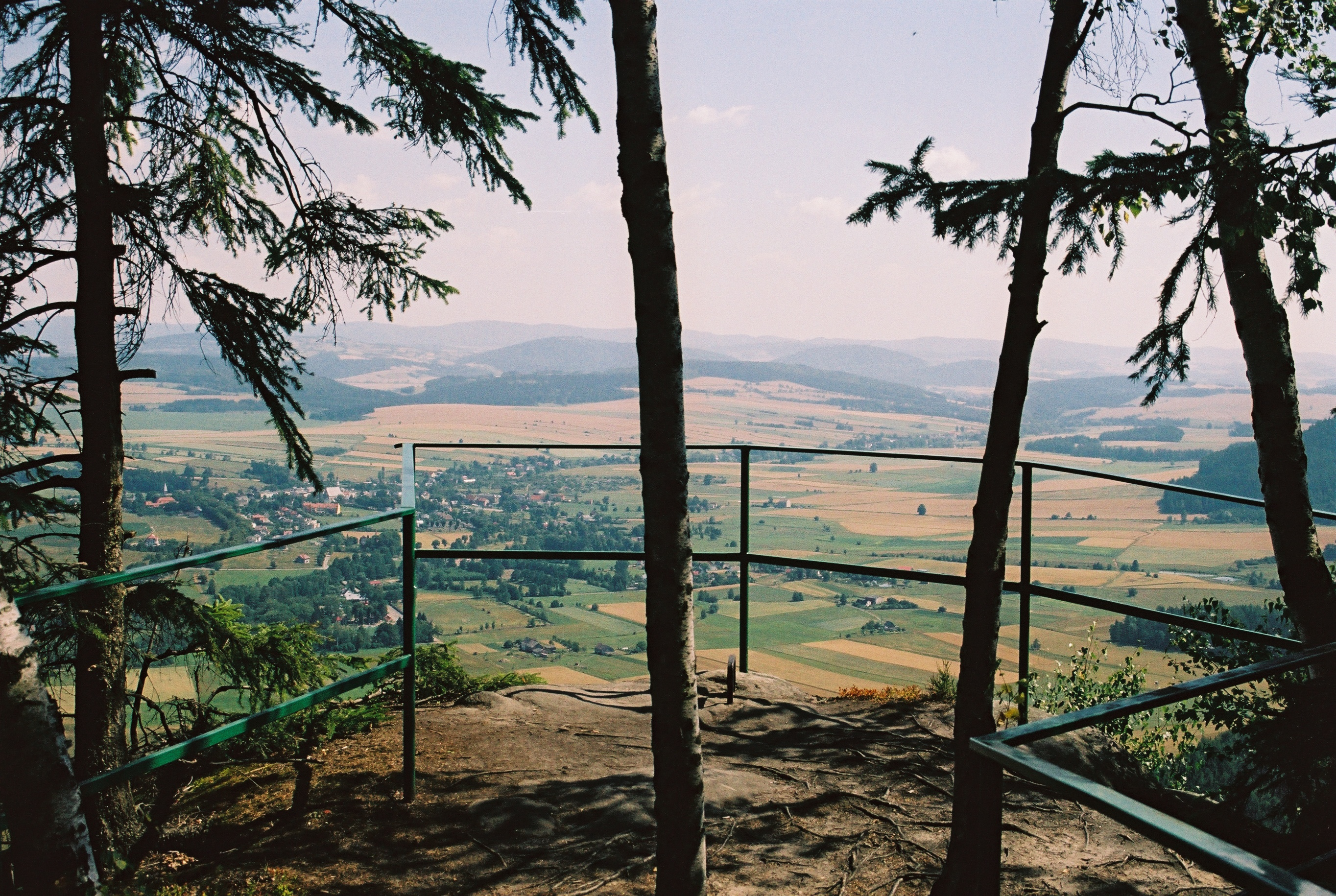 A view point on top of a rock formation called Ochota Magdaleńska (German name: Magdalenens Lust) in Góry Stołowe, Poland.